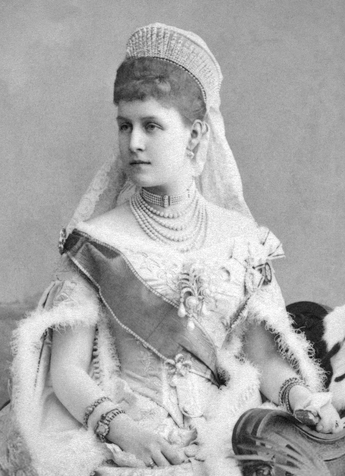 Grand Duchess Alexandra Georgievna of Russia